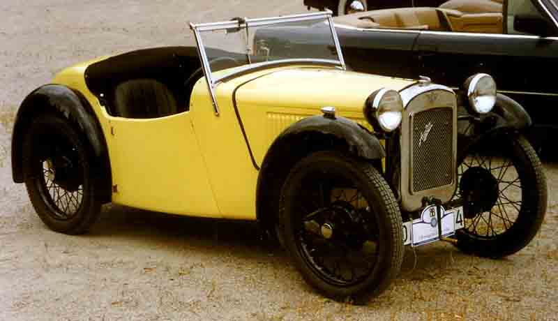 Austin Seven Nippy 2-Seater Sports 1933